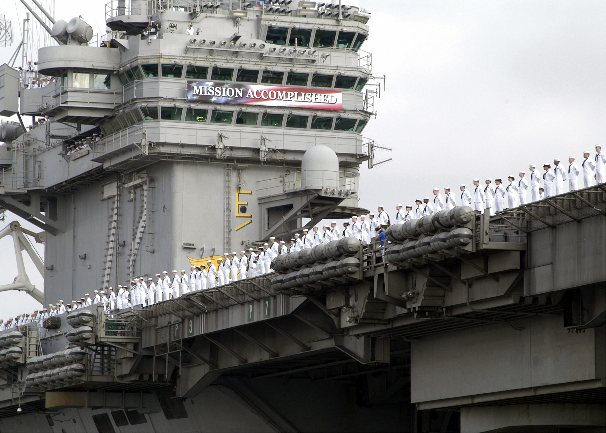 030502-N-9214D-002 Naval Air Station North Island, San Diego, Calif. (May 2, 2003) -- Sailors aboard USS Abraham Lincoln (CVN-72) man the rails as the ship pulls into NAS North Island to a cheering crowd of family and friends during their port visit to off-load the ship’s Air Wing. Lincoln and her embarked Carrier Air Wing Fourteen (CVW-14) are returning from a 10-month deployment to the Arabian Gulf in support of Operation Enduring Freedom and Operation Iraqi Freedom. Operation Iraqi Freedom is the multi-national coalition effort to liberate the Iraqi people, eliminate Iraq’s weapons of mass destruction, and end the regime of Saddam Hussein.